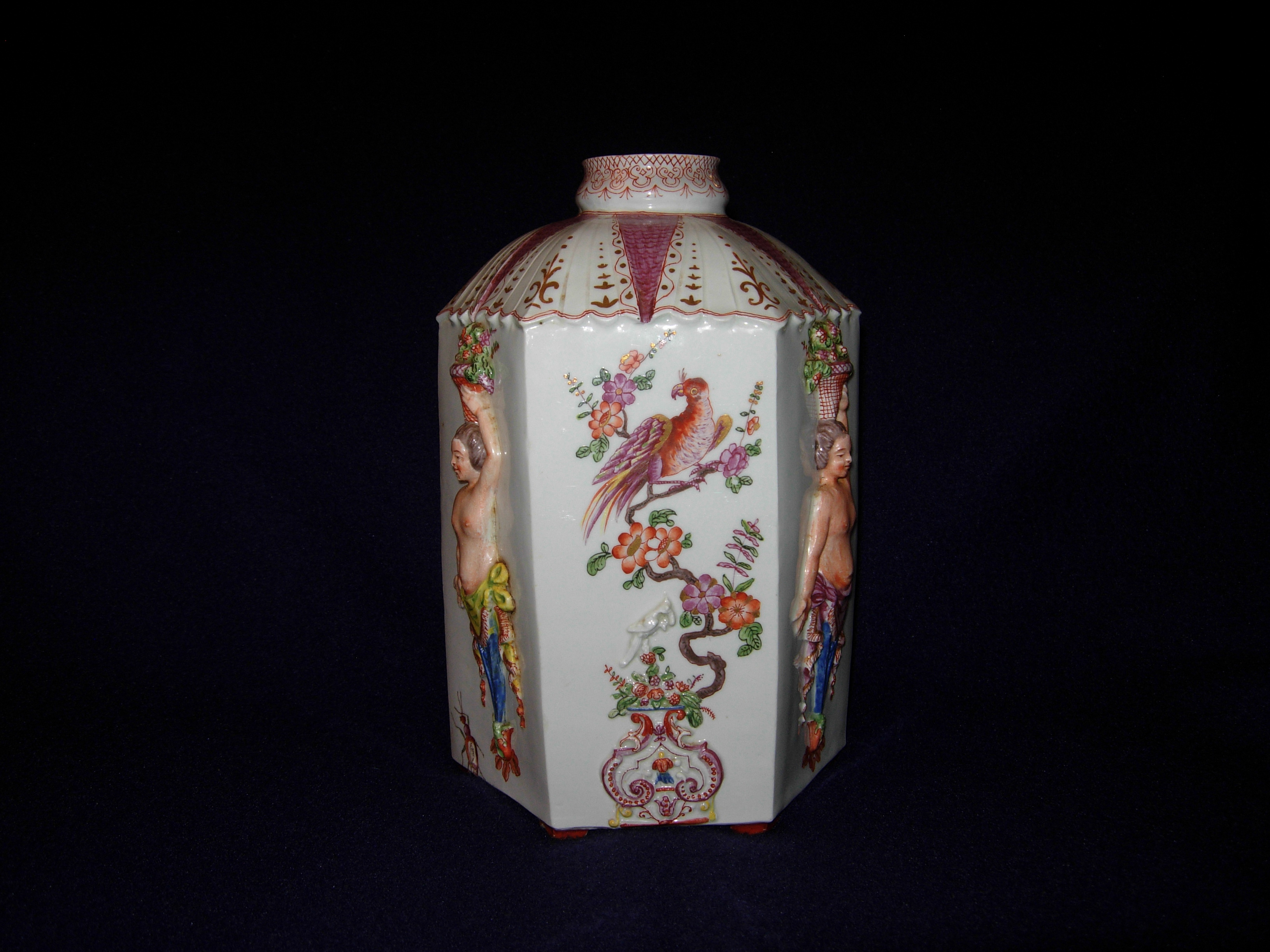 Du Paquier vase with engraved mark Z